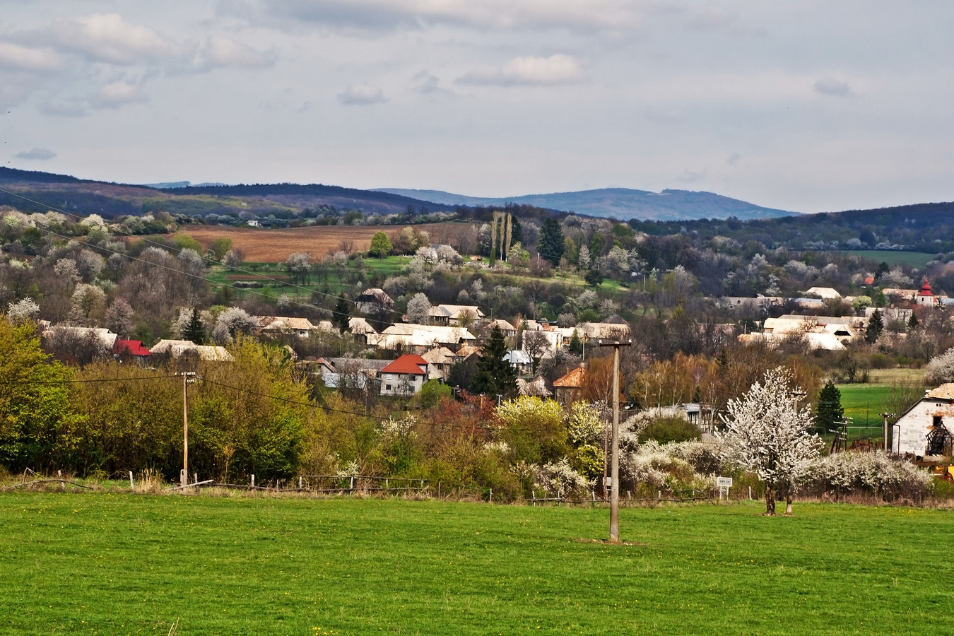 Spring in the V.Lom